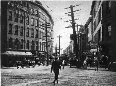 Broadway looking south from intersection with State Street. Albany, New York in mid-1910s, prior to building Delaware and Hudson Plaza (SUNY System Administrative Building) which would soon be on the left.